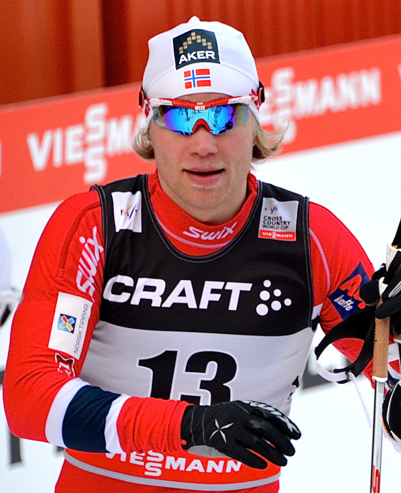 Eirik Brandsdal at Royal Palace Sprint in Stockholm March 20, 2013